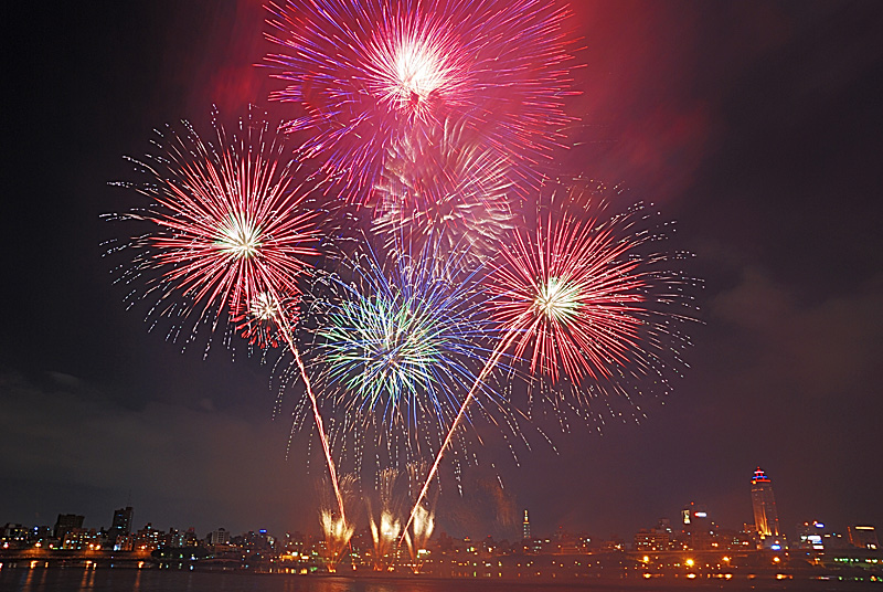 The firework show on ROC's National Day, 2006.